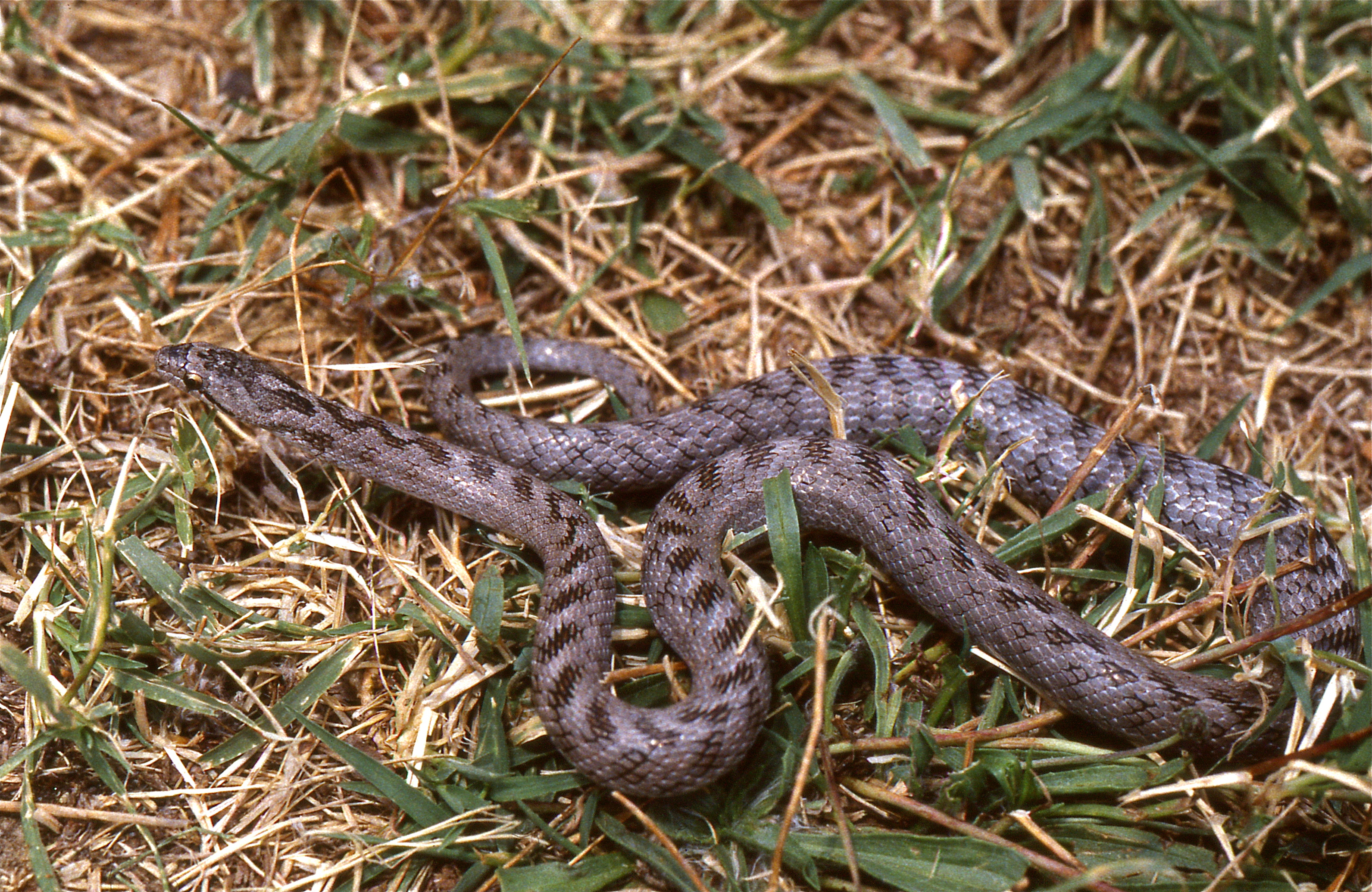 Hérault, FRANCE Scanned Slide from May 1997